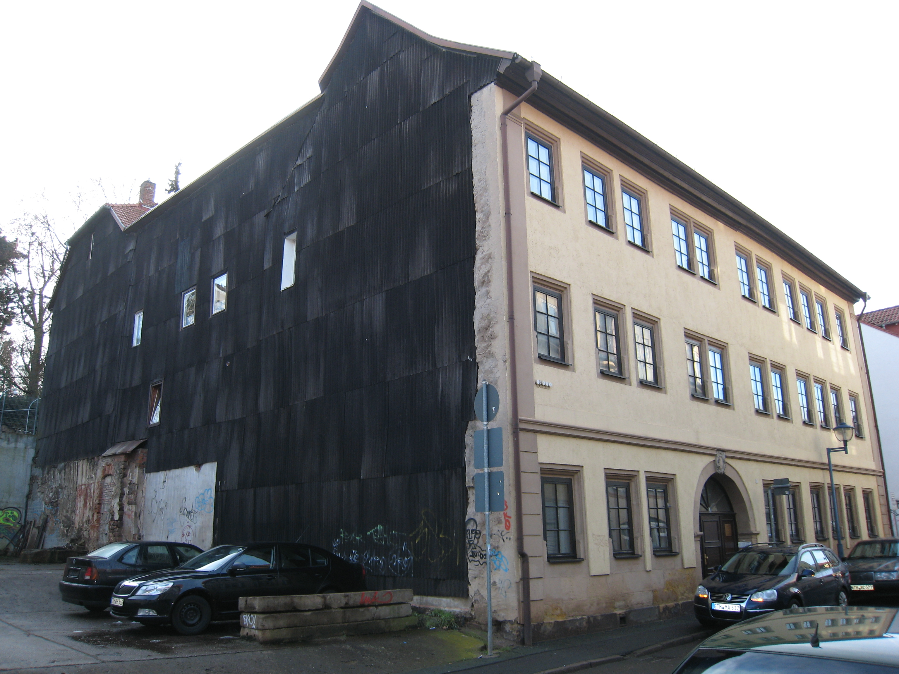 Siebleber Strasse 8 Gotha